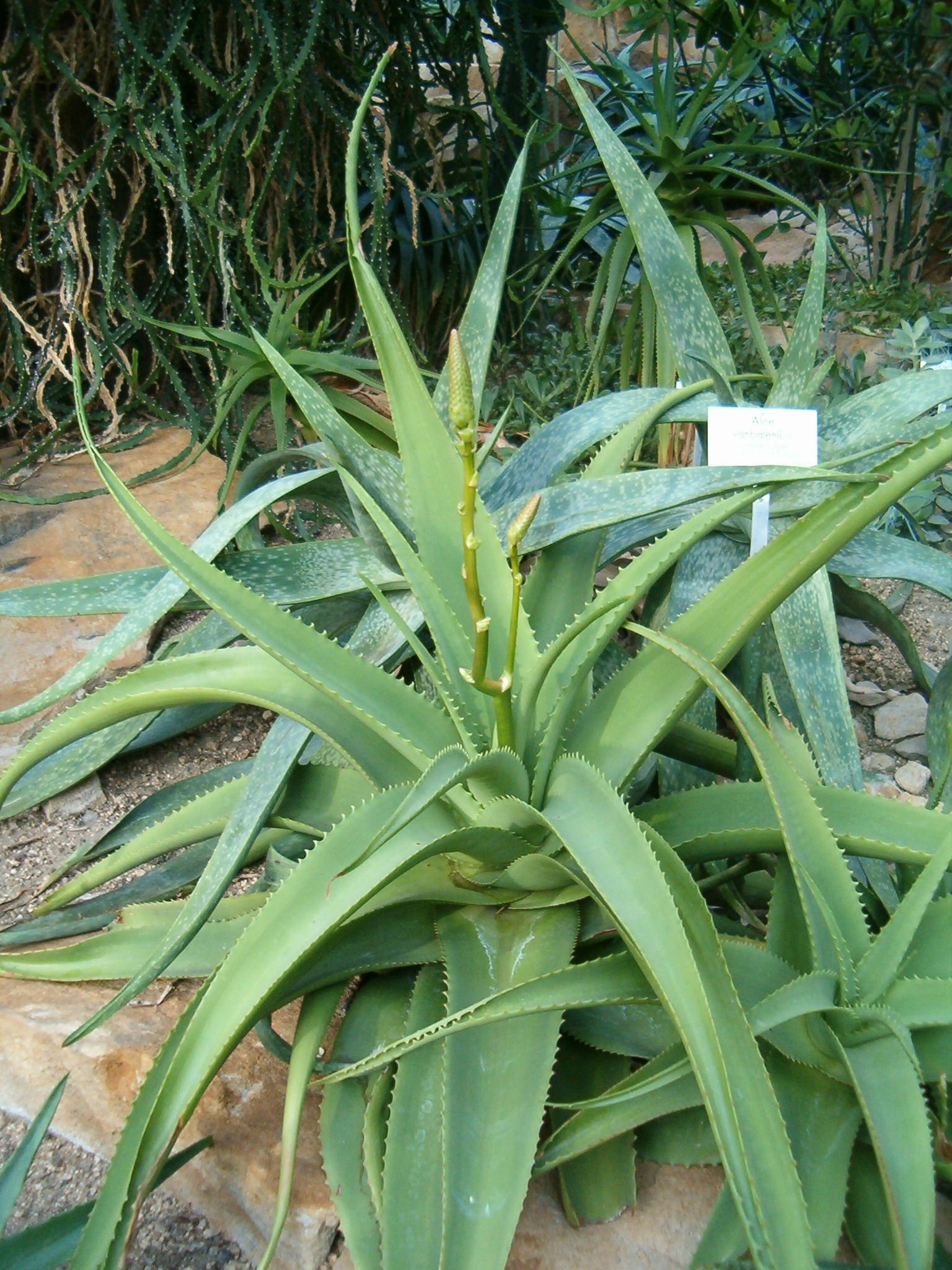 Location: Botanical Gardens Berlin Dahlem Xerophyt